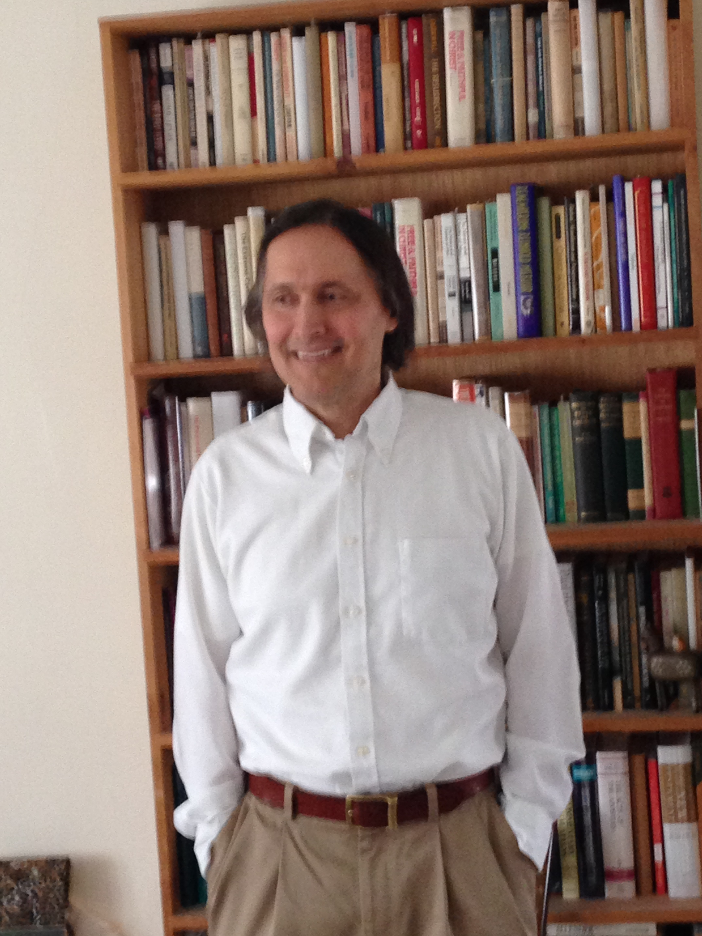 Image of Paul Moser